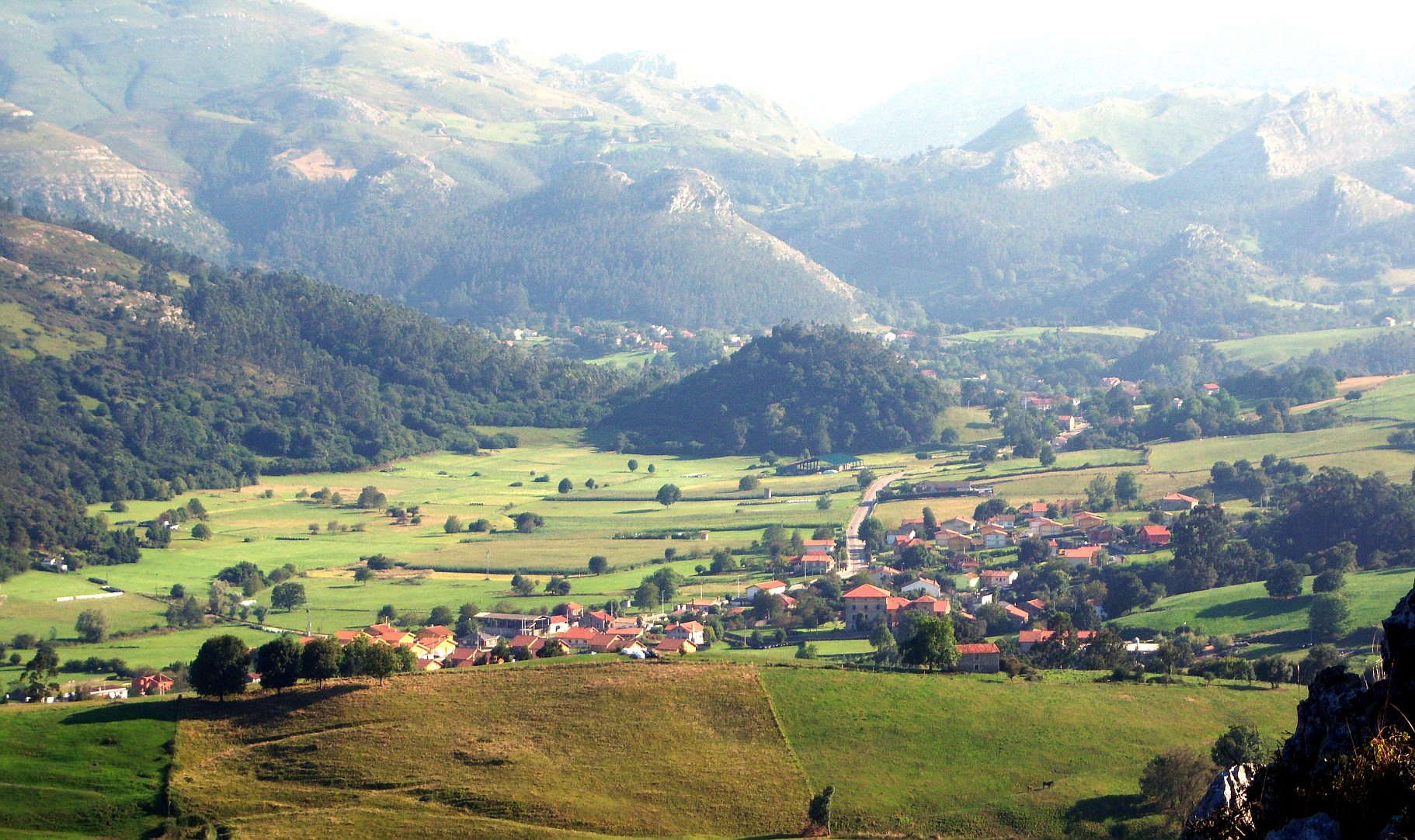 View to the village of Navajeda from the Vizmaya Peak (Cantabria, Spain)